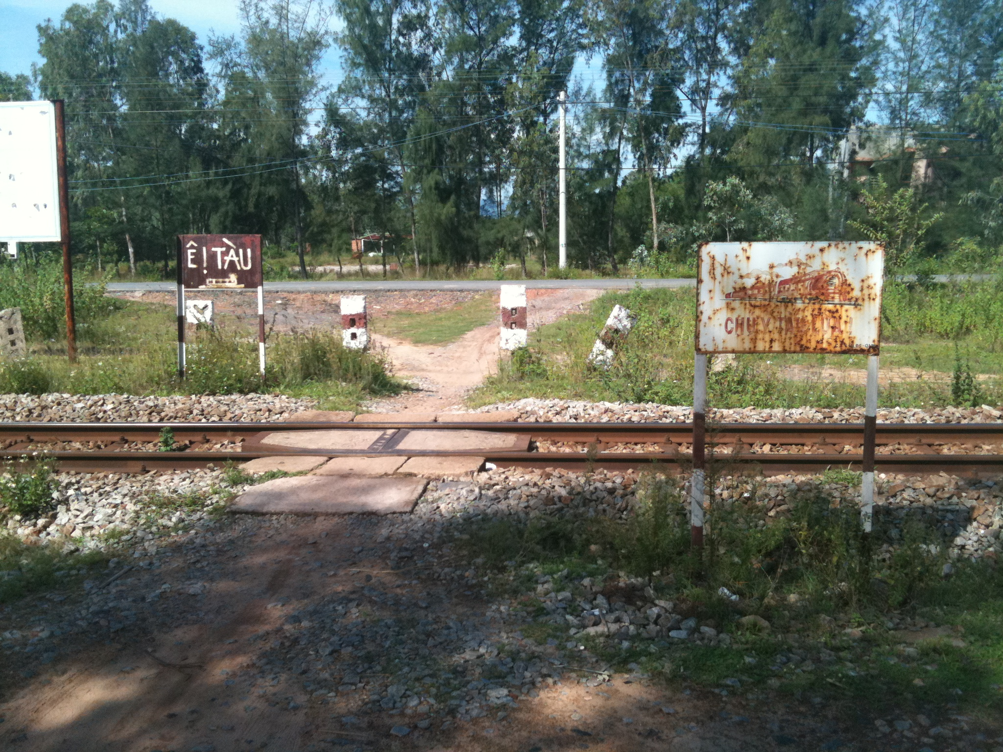 An unprotected level crossing in Hoa Vang District, Da Nang, Vietnam. Signs on either side of the path warn travellers to watch for approaching trains.